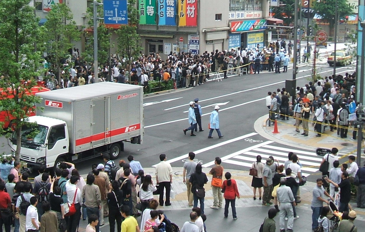 Akihabara massacre